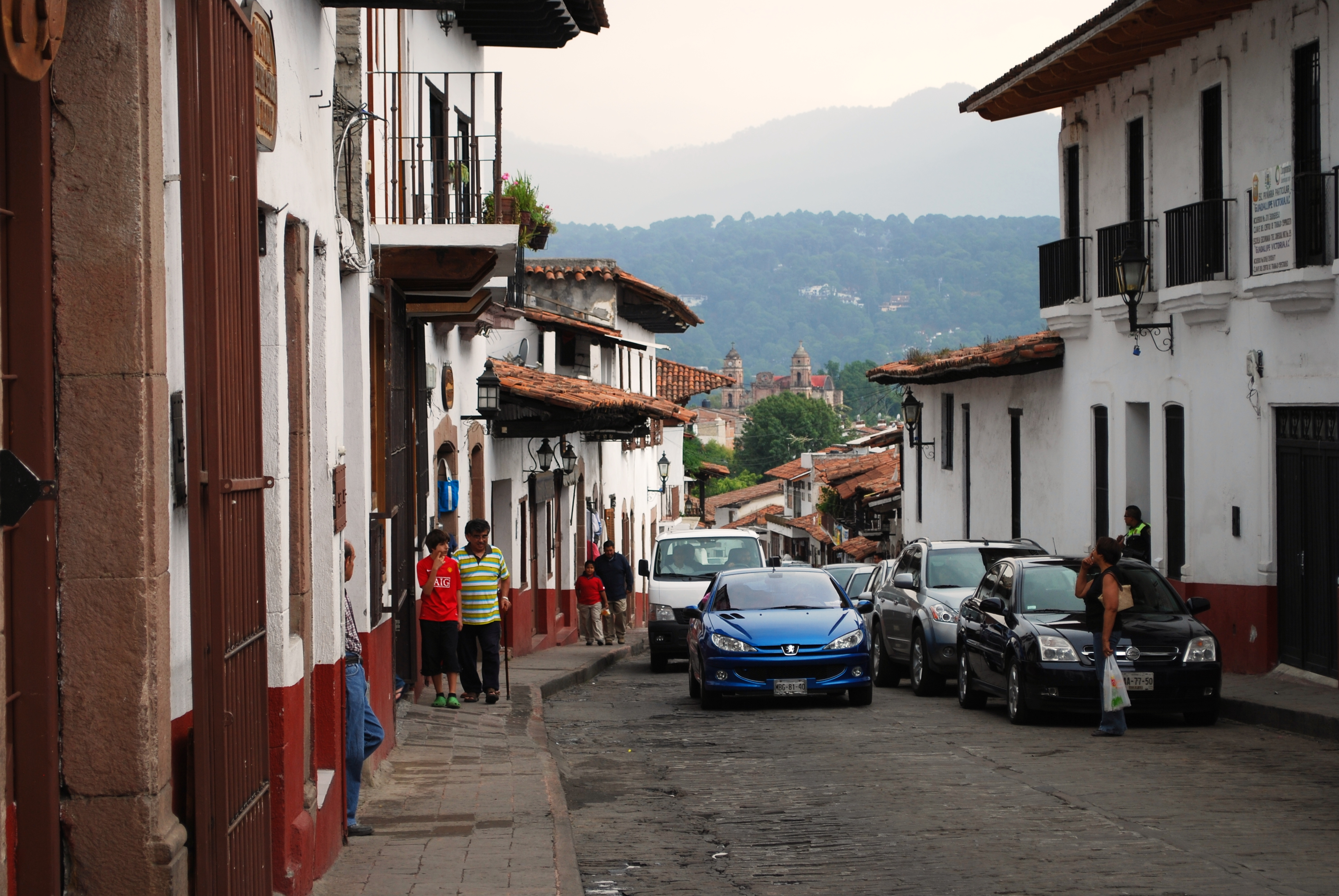 Looking down Joaquin Arcadio Street towards the Templo de Santa María Ahuacatlán in Valle de Bravo, Mexico